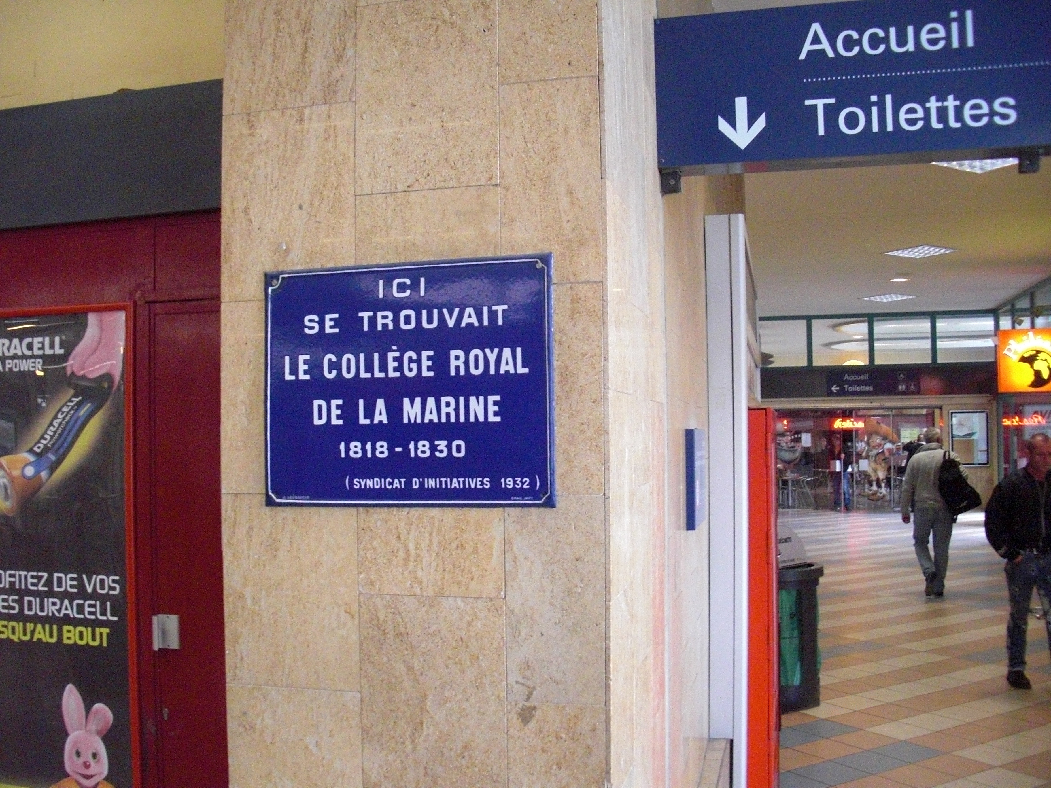 Collège Royal de la Marine 1818-30